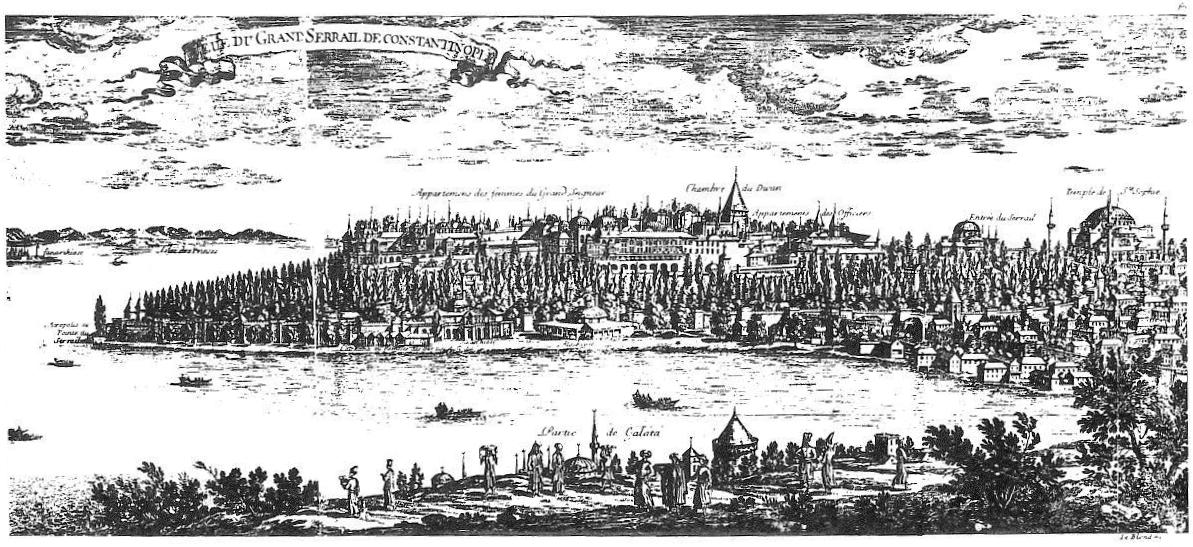 Panoramic view of the Topkapi Palace from the Golden Horn, ca. 1672, from Grelot, Relation nouvelle d'un voyage de Constantinople.